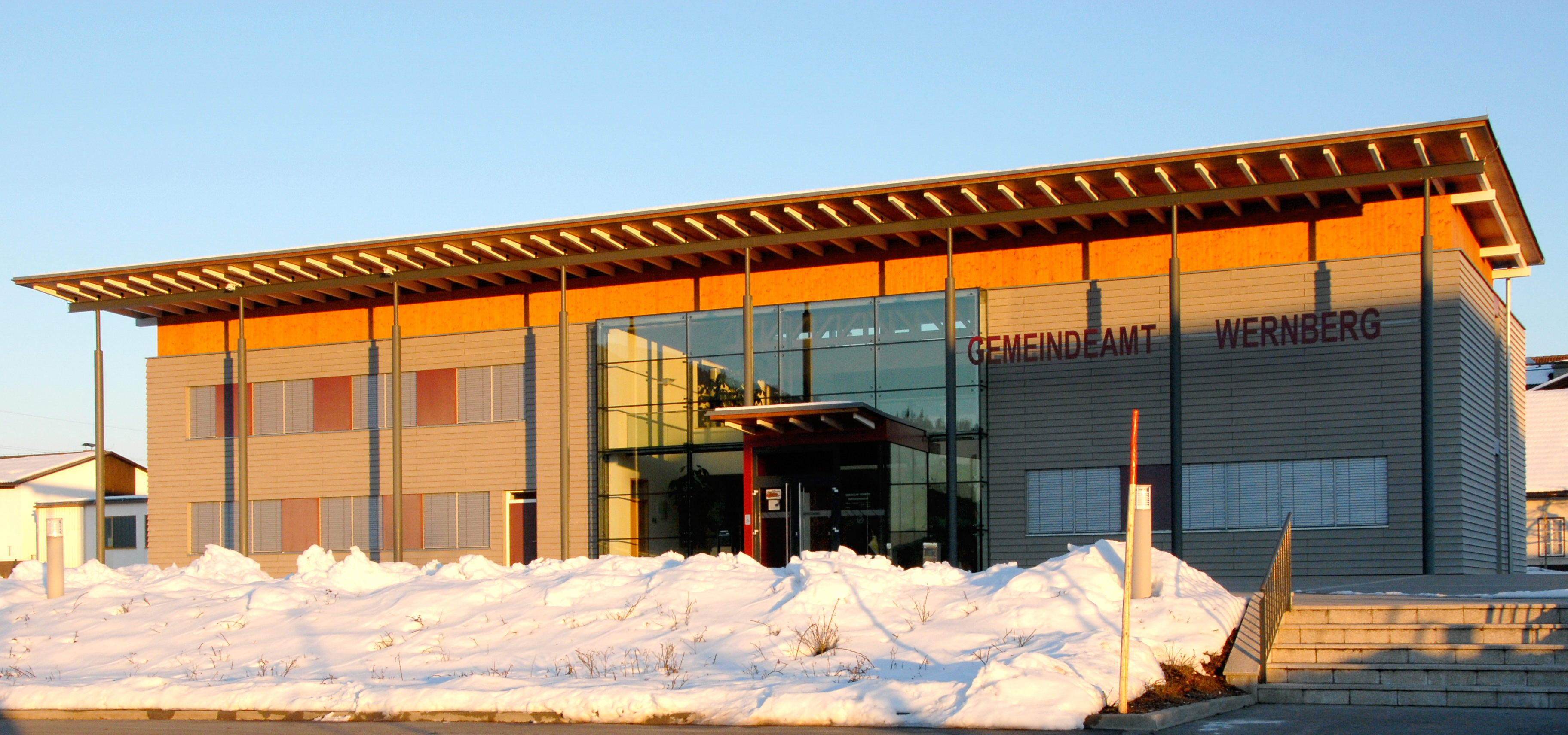 Municipal office of the community Wernberg, Carinthia, Austria